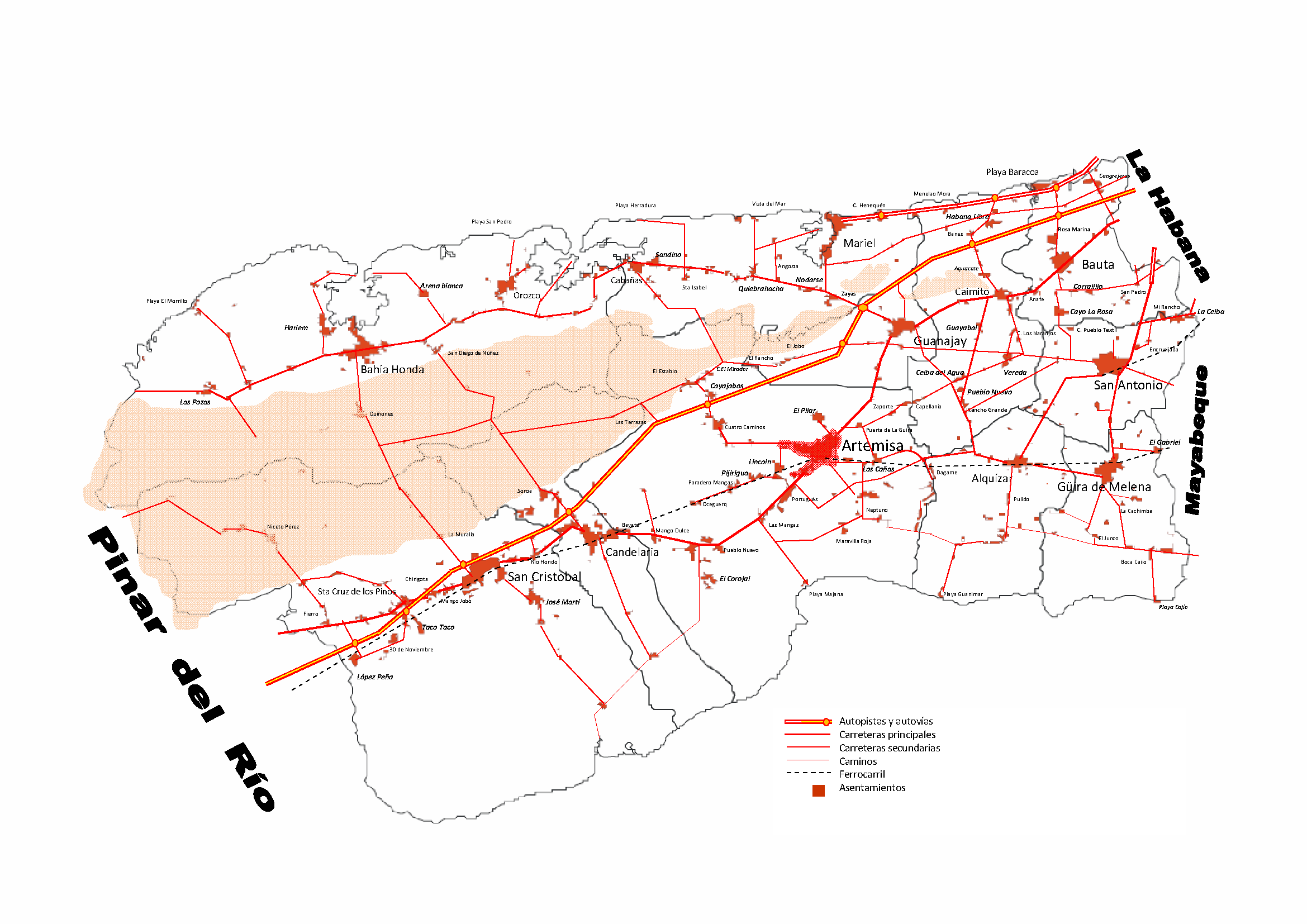 Route Map of Artemisa Province Cuba